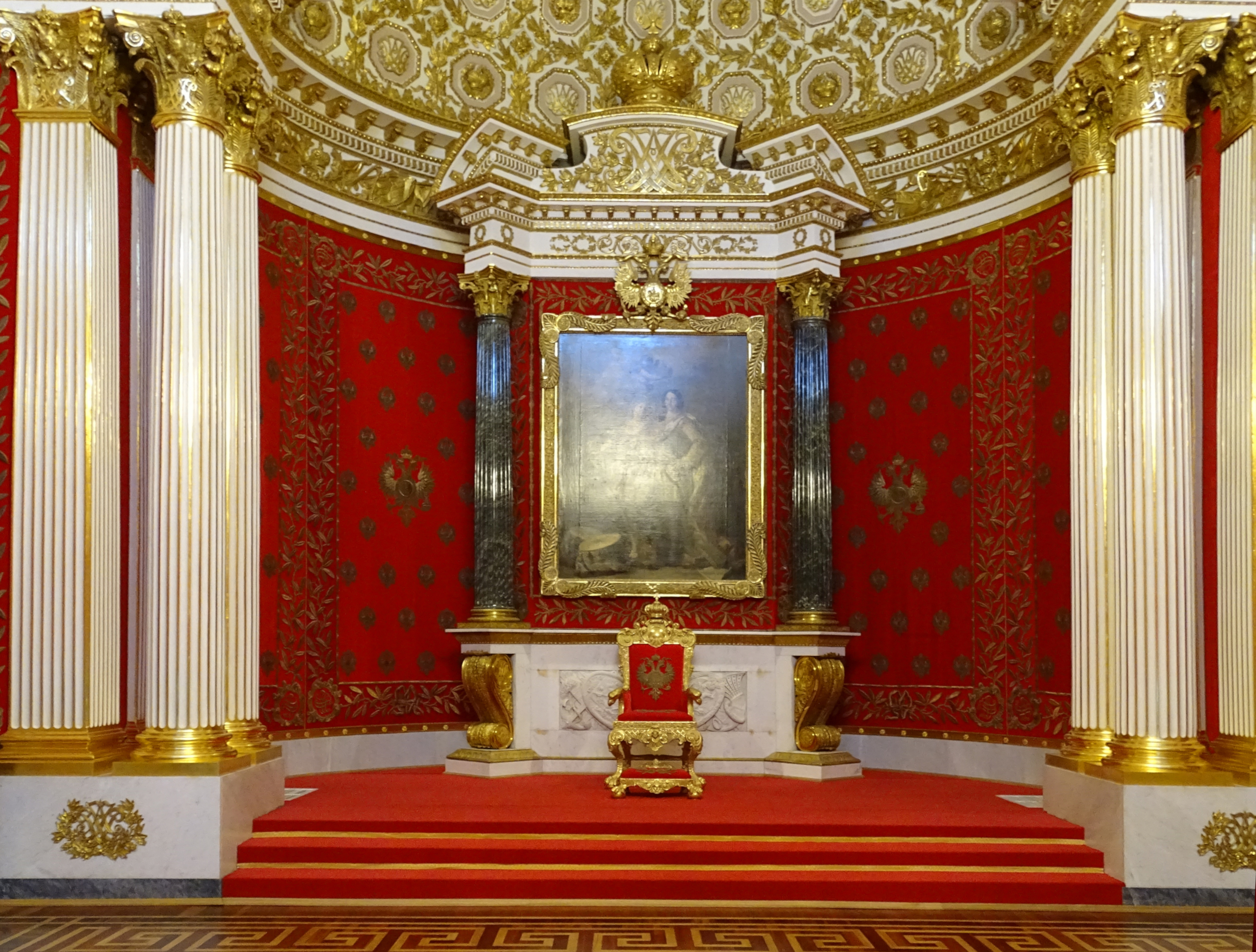 The Small Throne Room of the Winter Palace , Hermitage, Saint Petersburg.